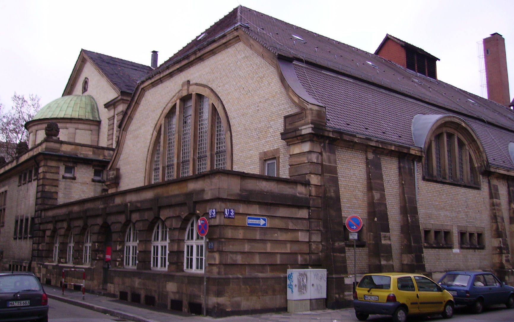 in Mannheim, Germany